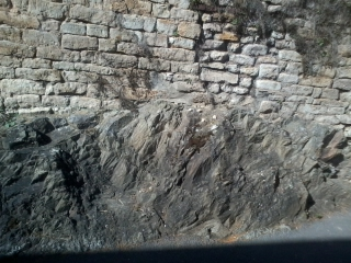 Schist in Verson, Calvados, France.